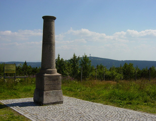 View of mountain Klinovec from the Fichtelberg. Meridian fixed point from 1864 in the foreground.